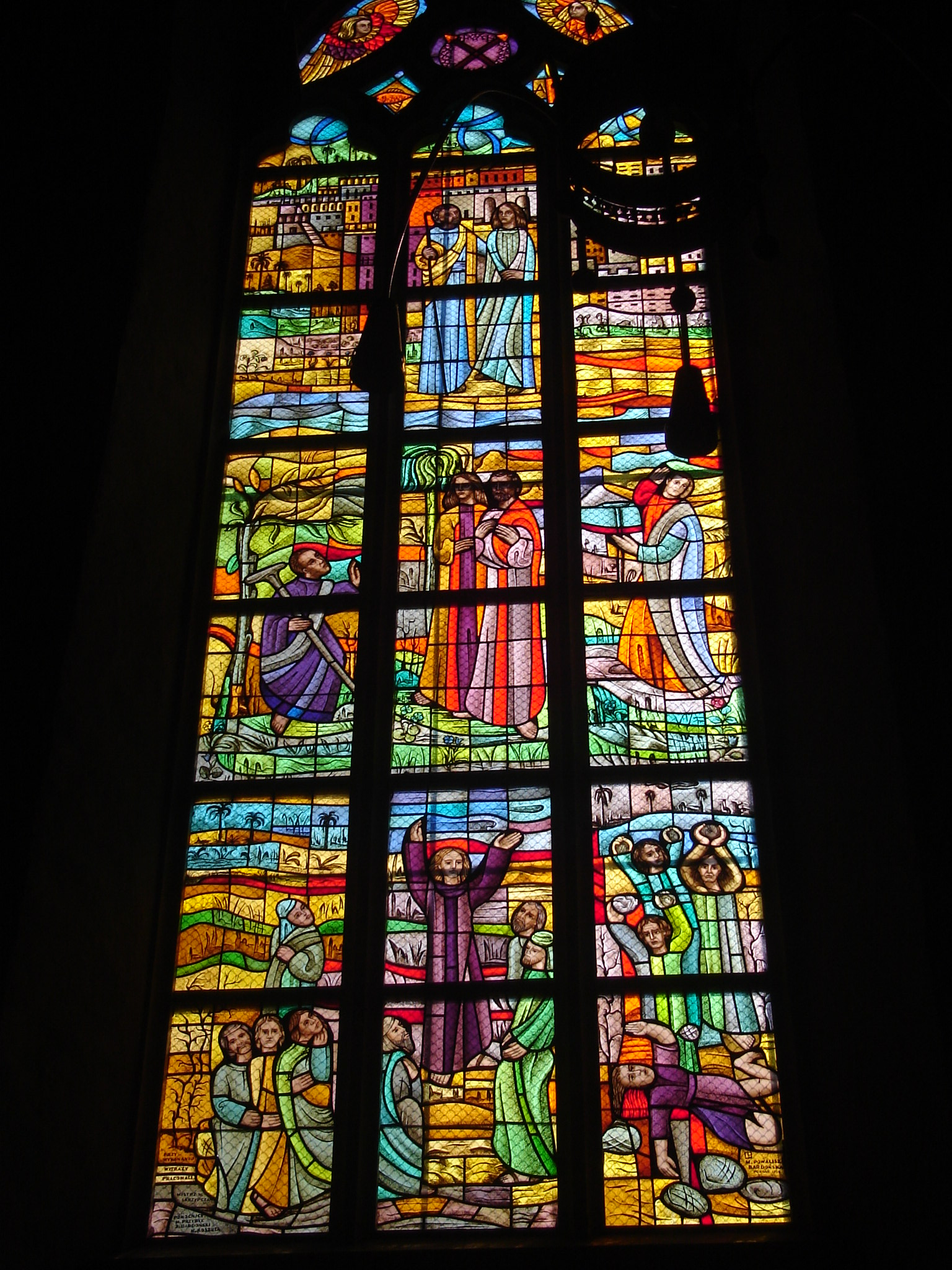 One of stained glass windows in church of Madonna from Częstochowa in Lubin (Poland).